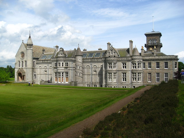 Template:Scottish